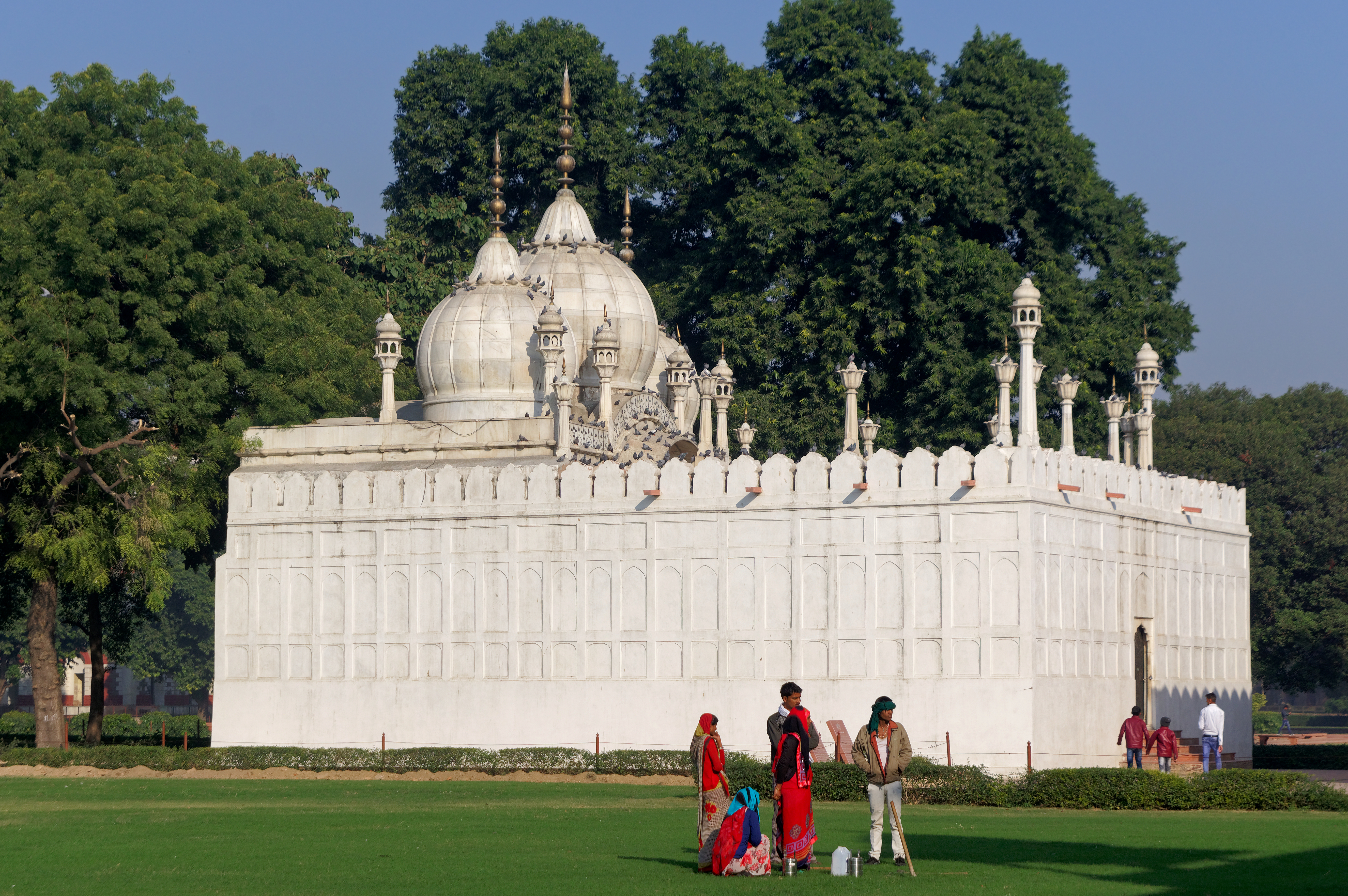 Moti Masjid, Red Fort, Delhi